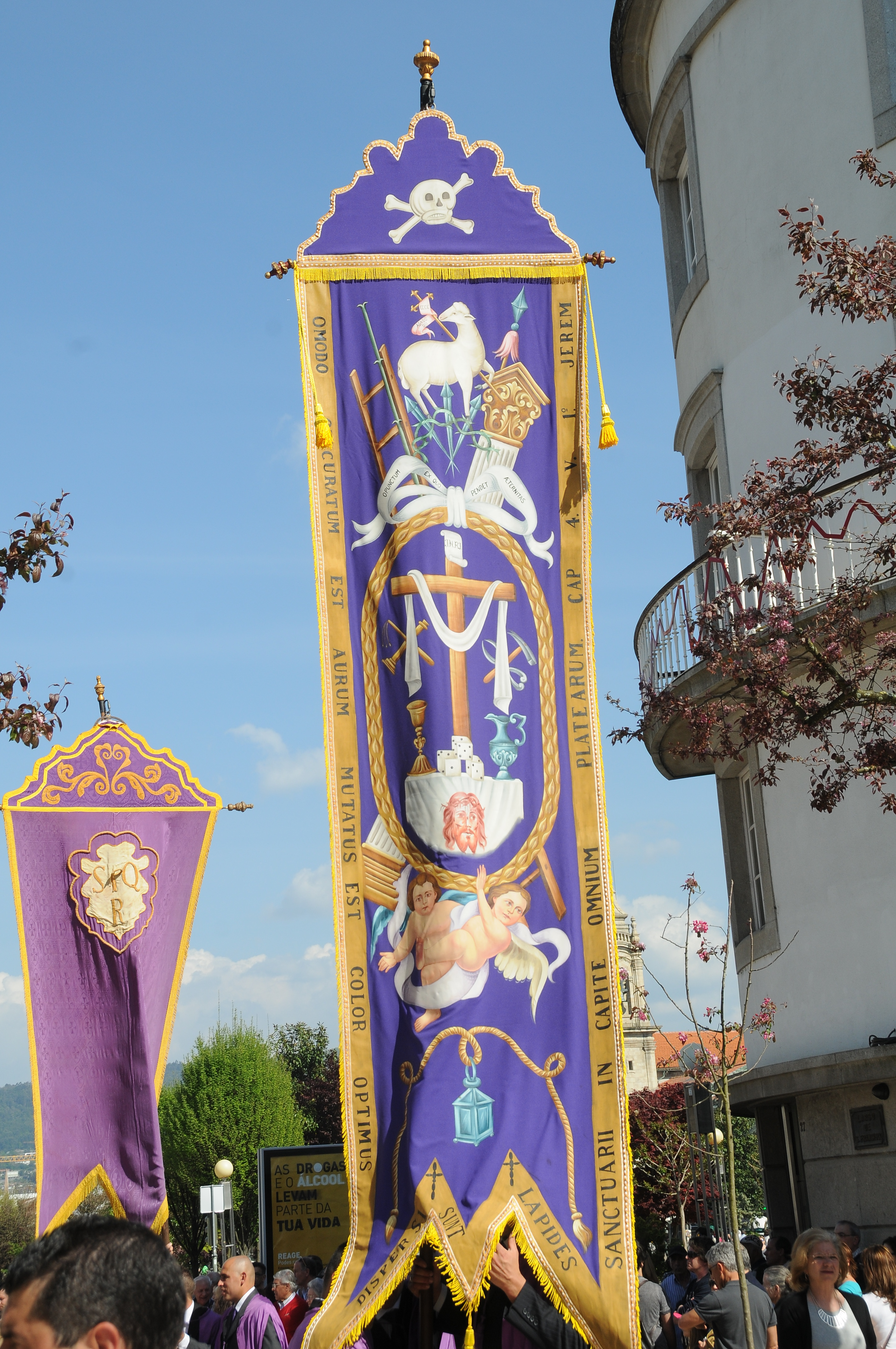 Procession of the religious standards, in Braga, Portugal